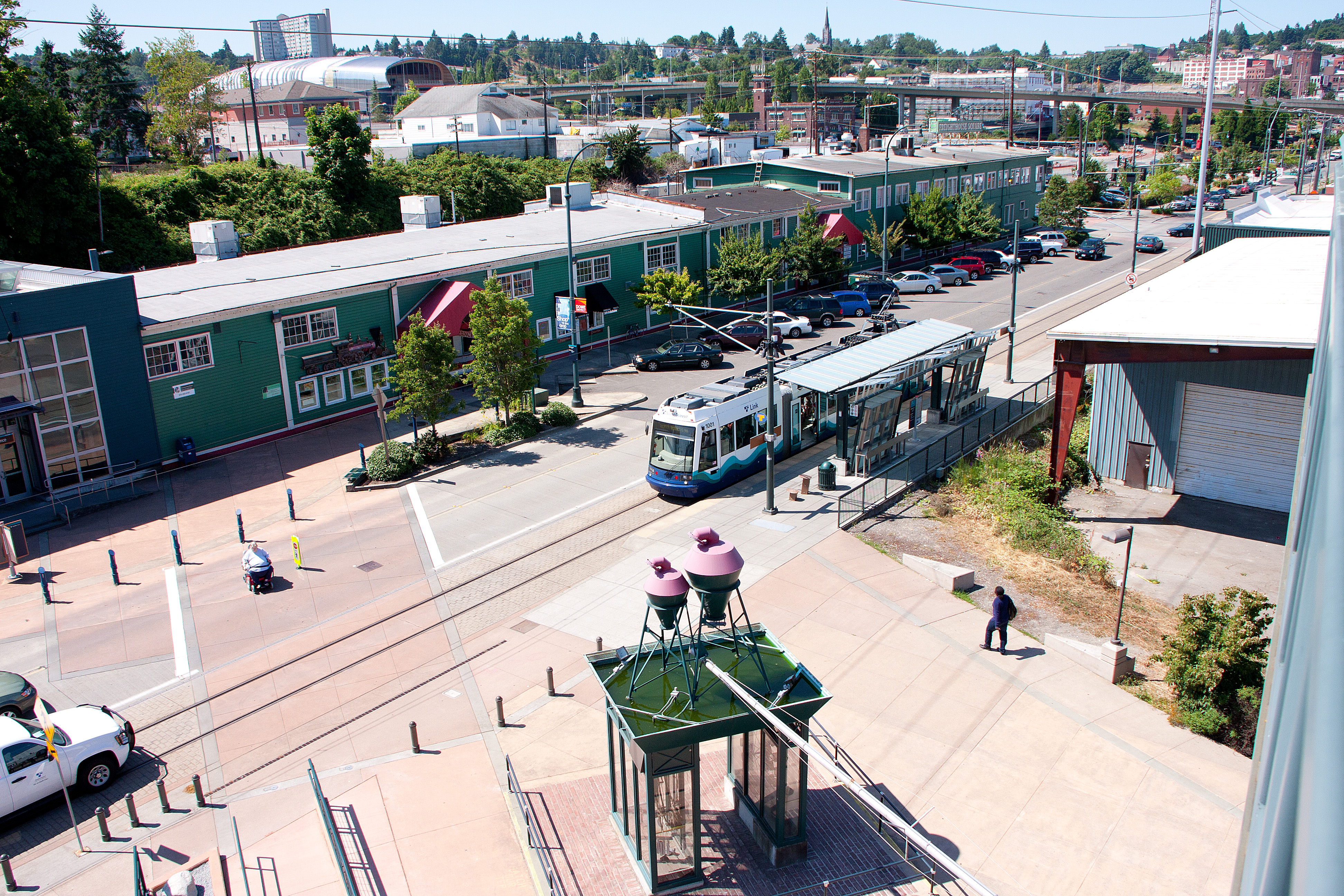 BIZ_DomeDist_LightRail3_7_11